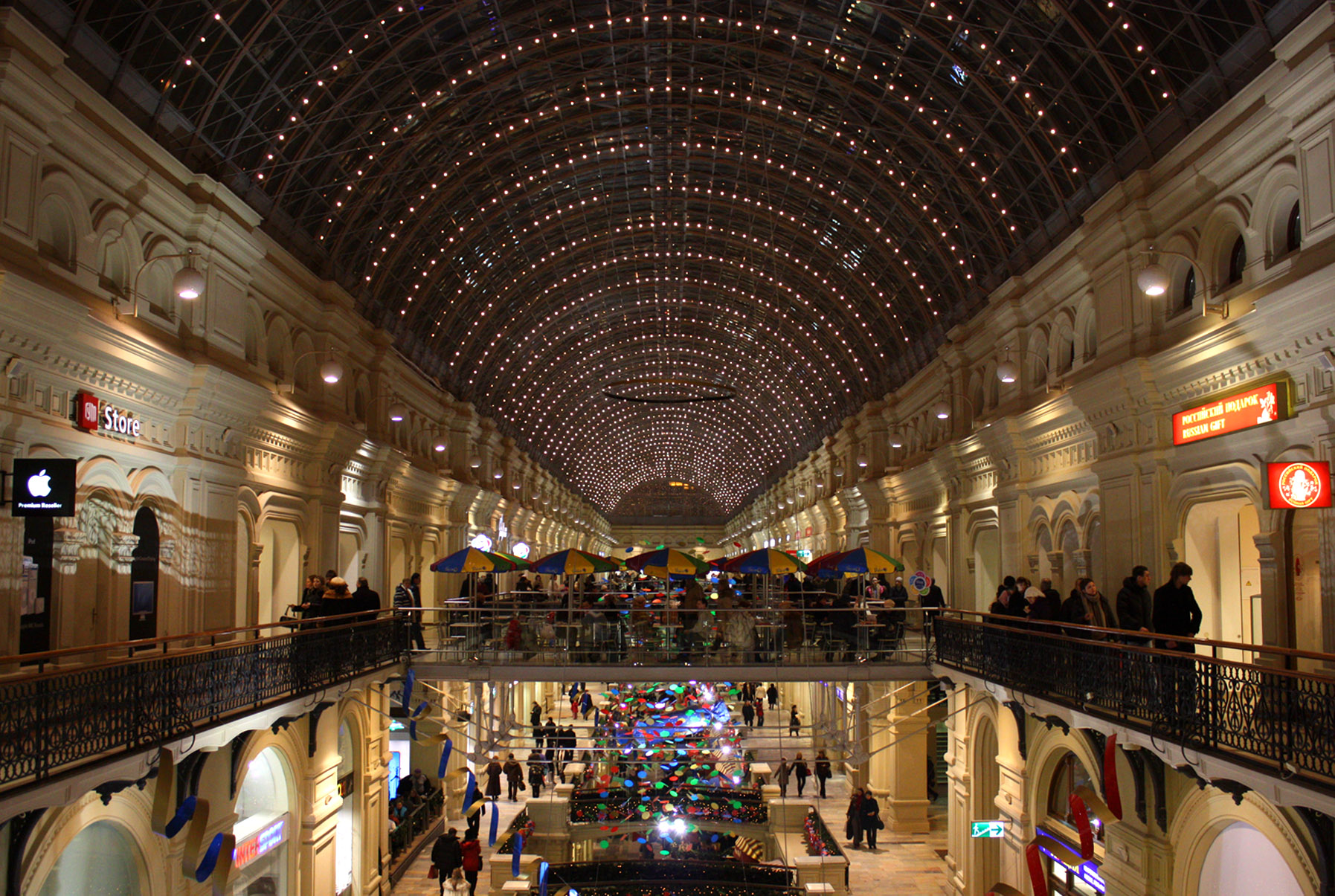 Moscow, the Main department store (GUM) during New Year's holidays